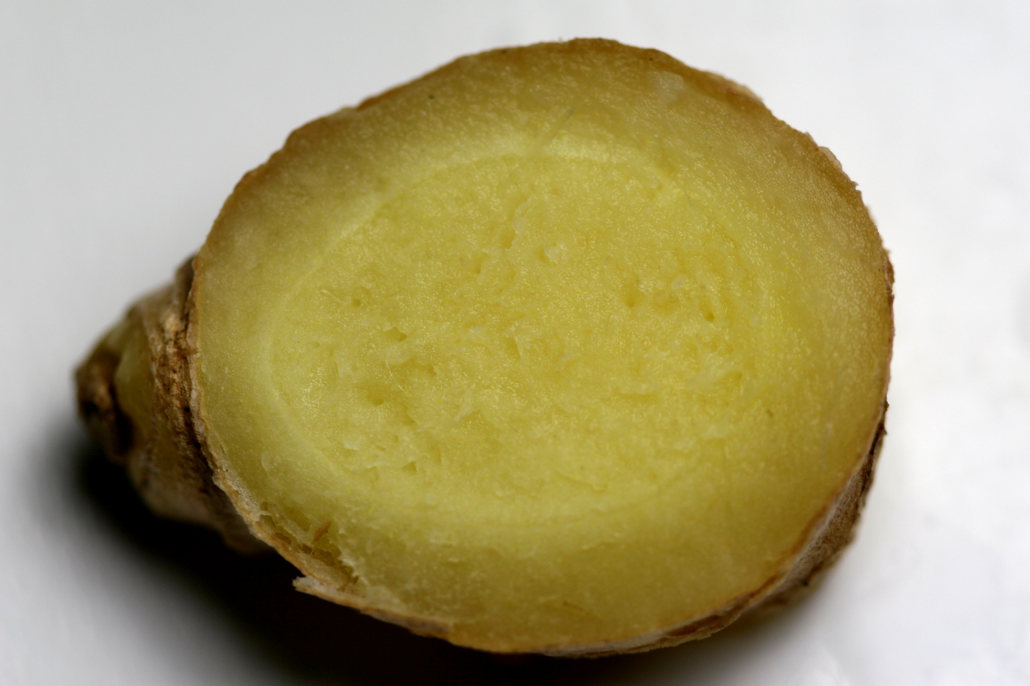 Ginger cross-section